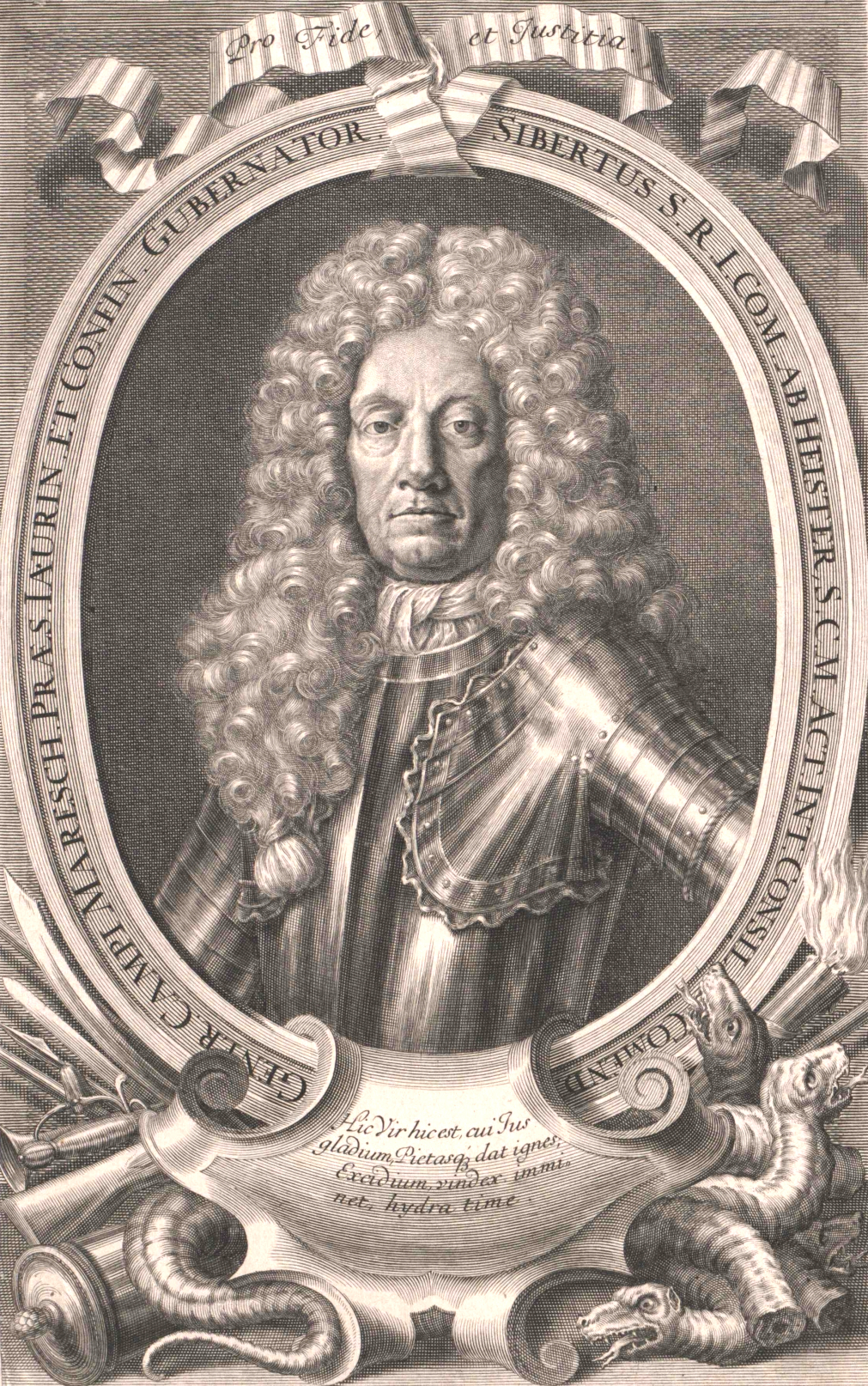 Sigbert Graf Heister Austrian Imperial Field marshal. (1646 - 1718)